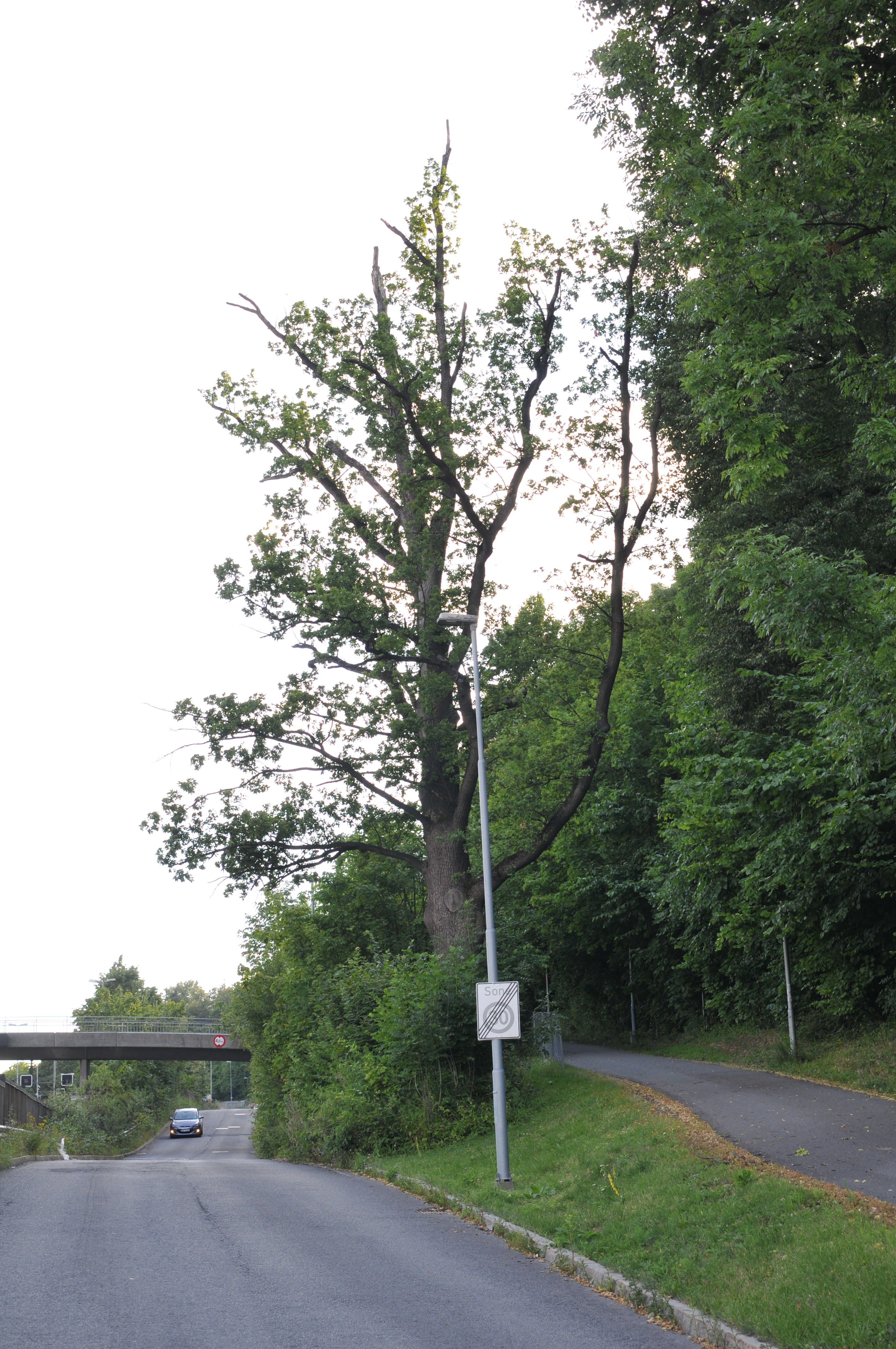 Protected Oak at Ullernchausséen/Silurveien